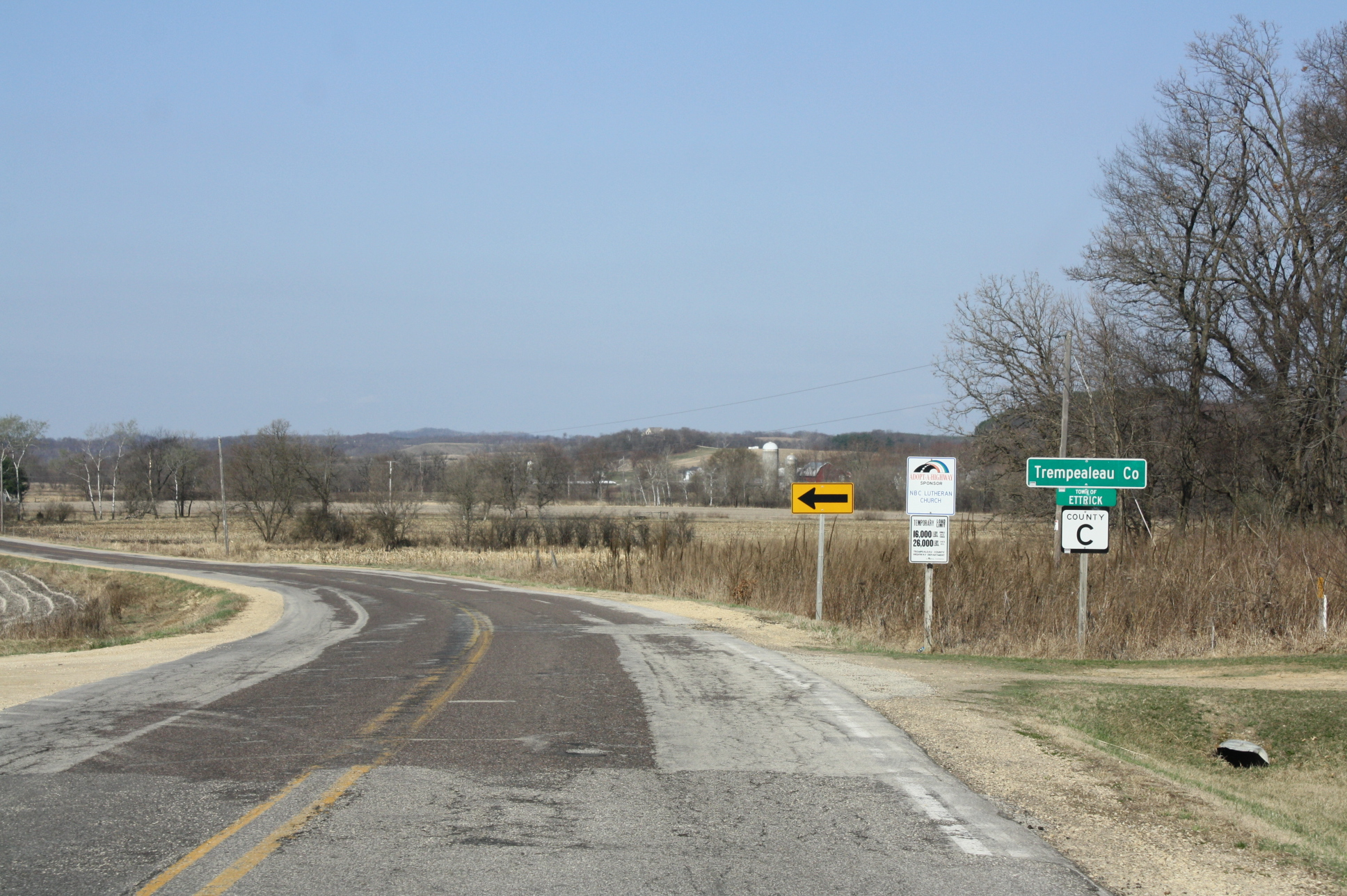 The entrance sign into Trempealeau County, Wisconsin on a county highway into Town of Ettrick.